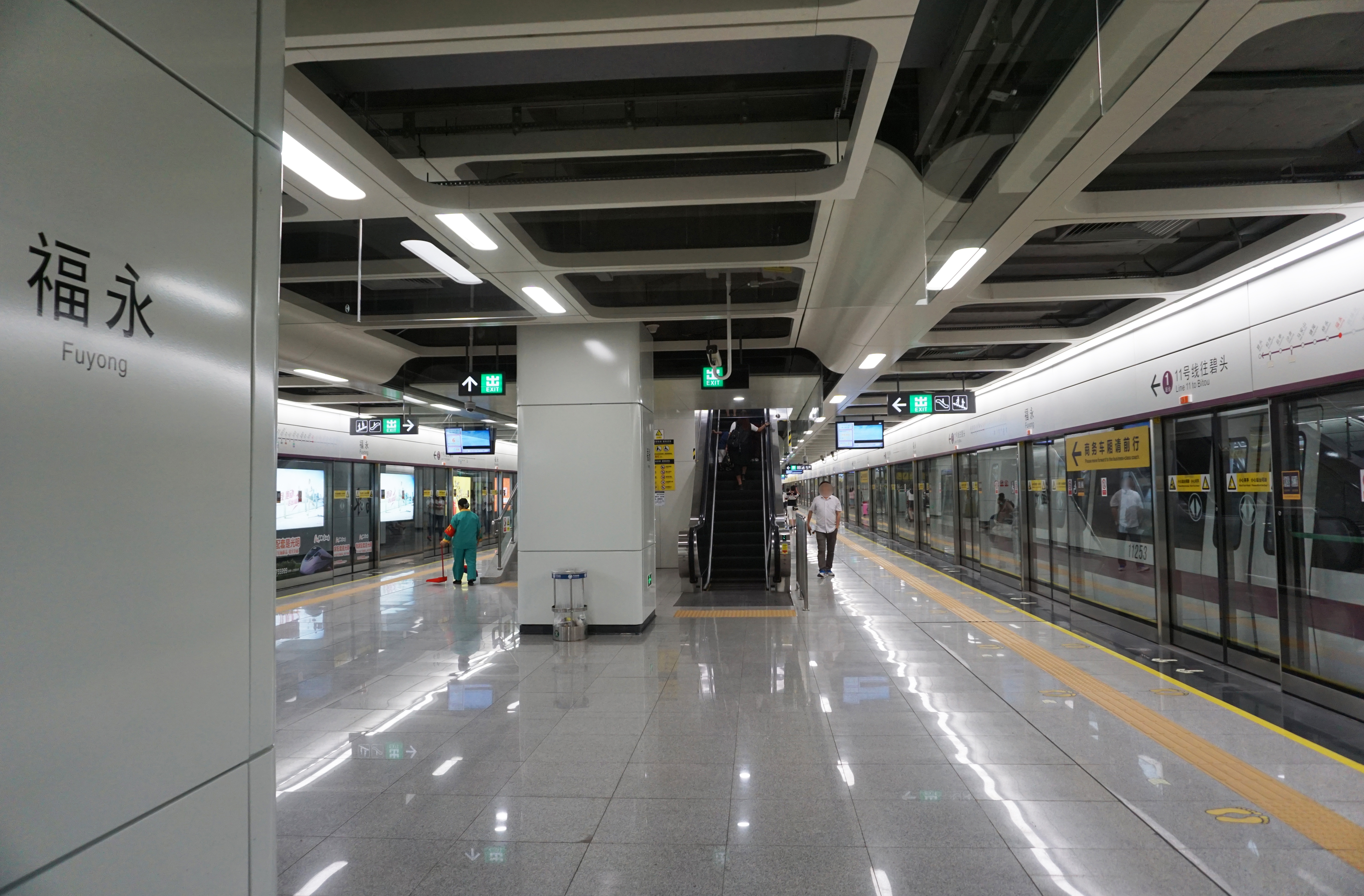 Fuyong Station in Fuyong, Shenzhen.